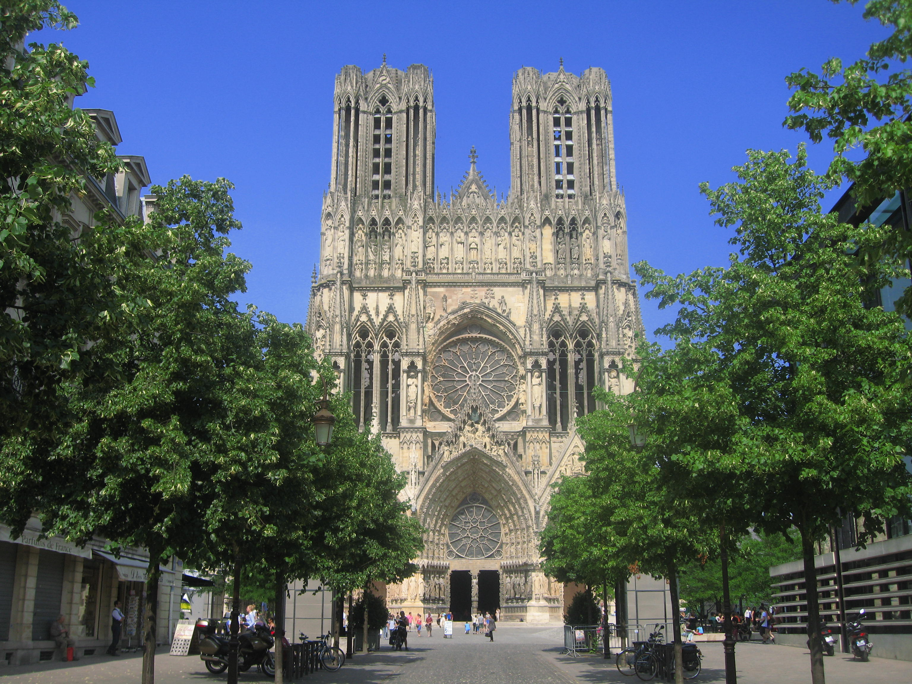 Reins Cathedral, France